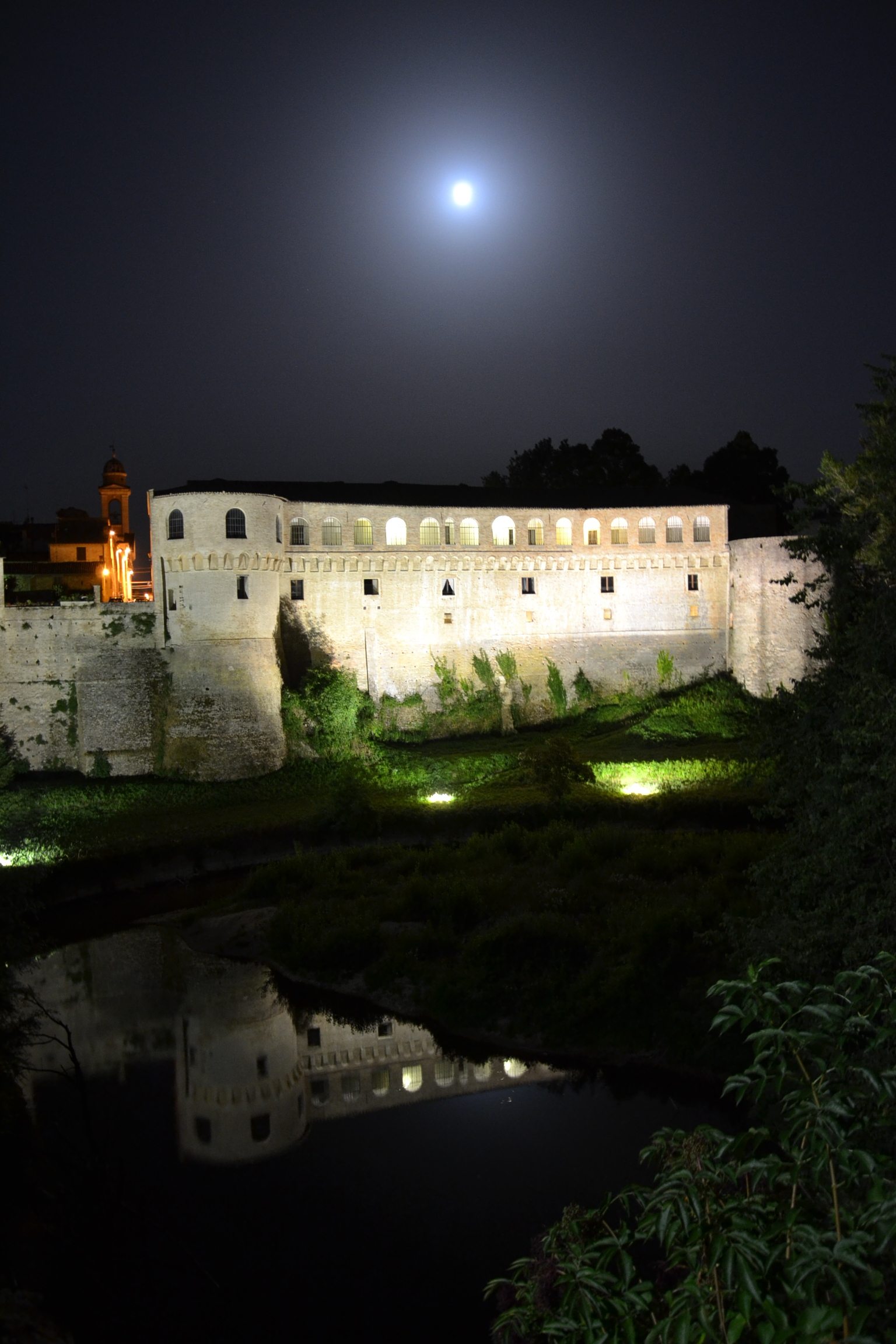 Urbania Lords Palace